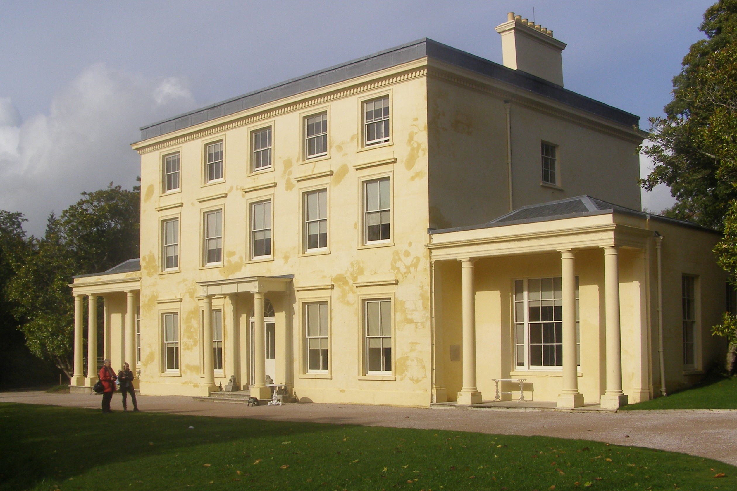 Greenway House - the holiday home of Agatha Christie